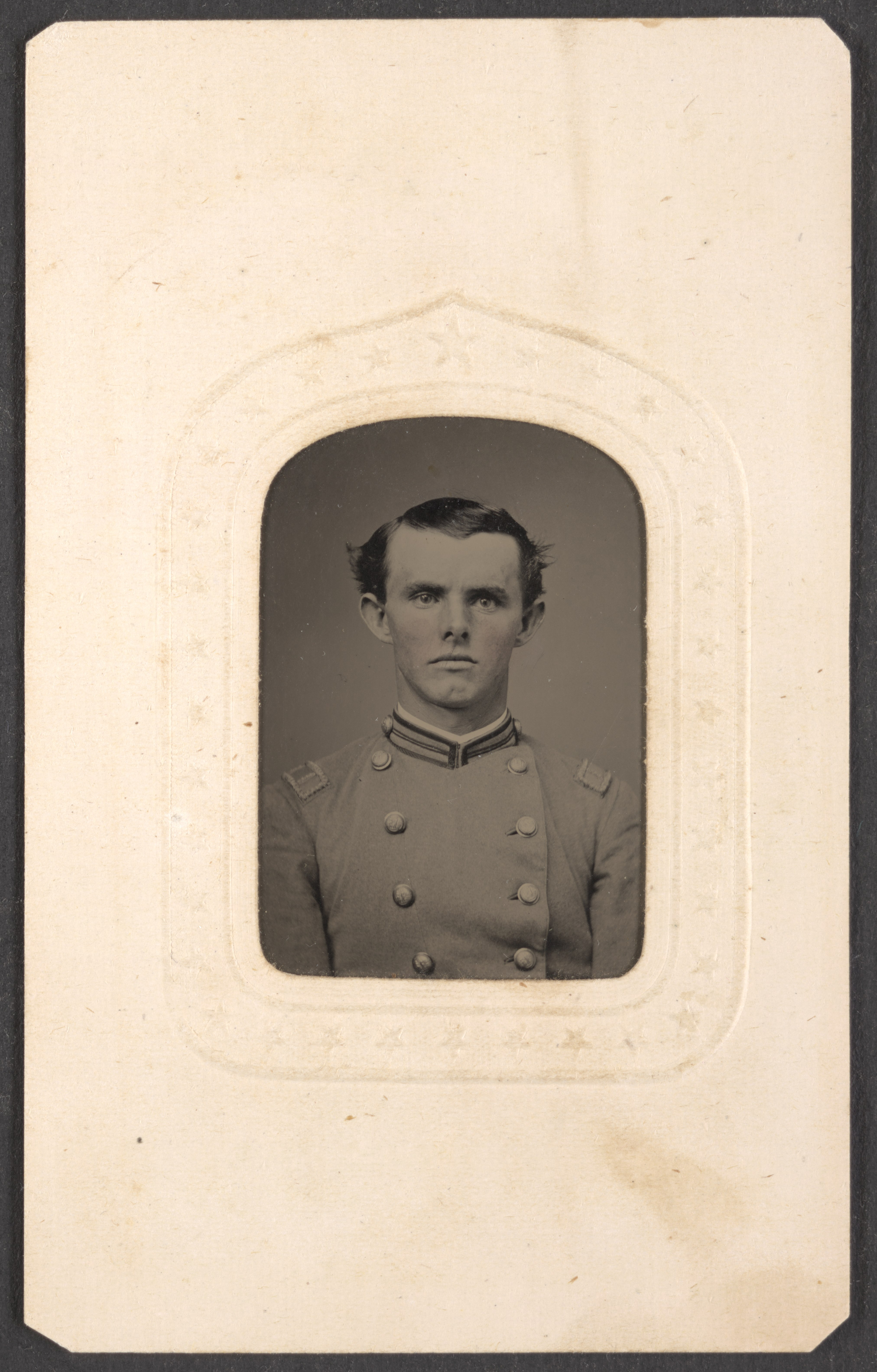 Title: Unidentified Confederate soldier in uniform with Kentucky state seal buttons] / From Uhlman & Rippel's Gallery, No. 51 Edmond St., St. Joseph, Mo Abstract/medium: 1 photograph : tintype in mat ; plate 59 x 43 mm, case 99 x 61 mm (carte de visite format)